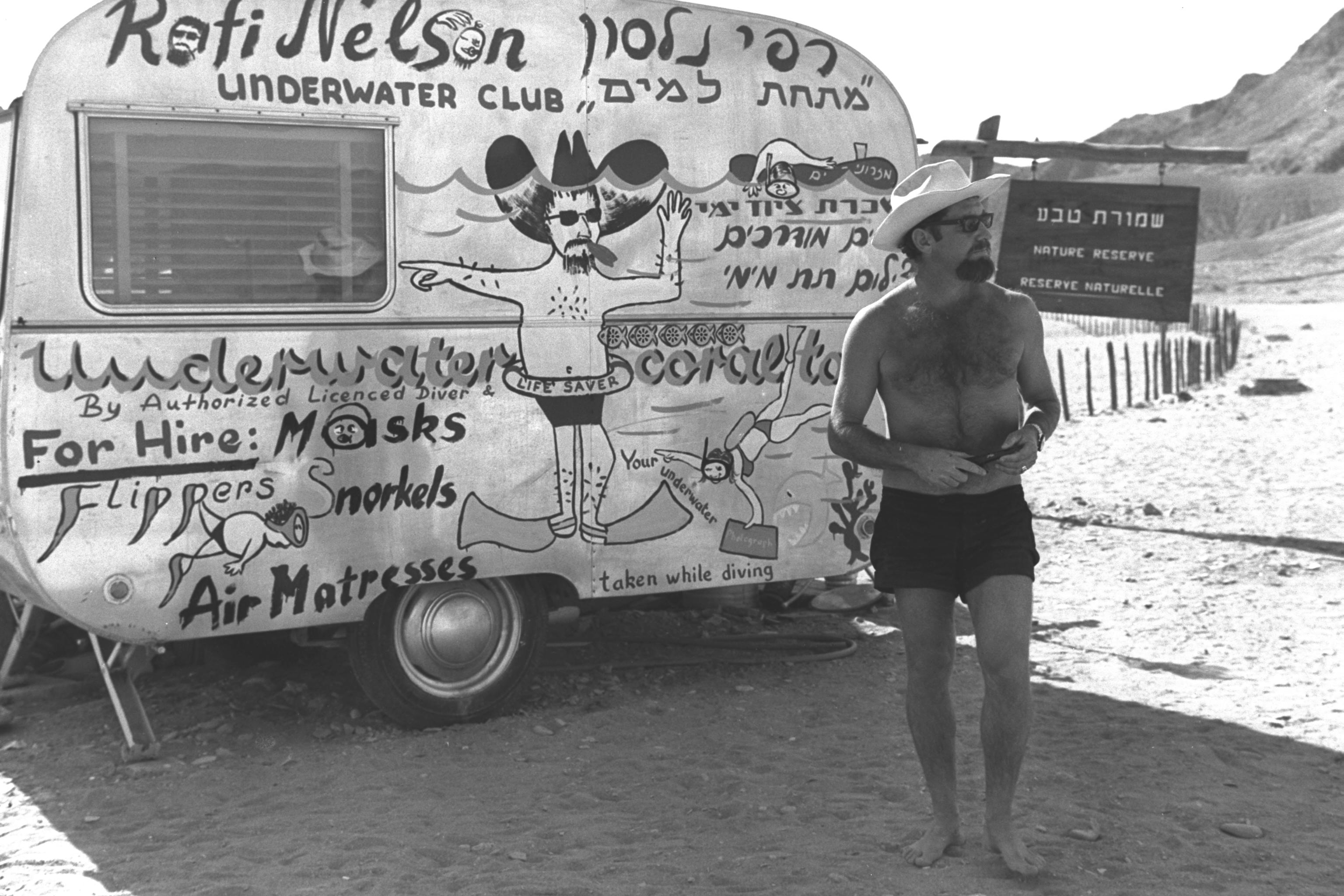 RAFI NELSON IN FRONT OF HIS TRAILER AT HIS UNDERWATER CLUB FOR SKIN DIVING ON BEACH OF EILAT.רפי נלסון ליד הקרוואן הנגרר שלו להשכרת ציוד צלילה בחוף הים באילת.